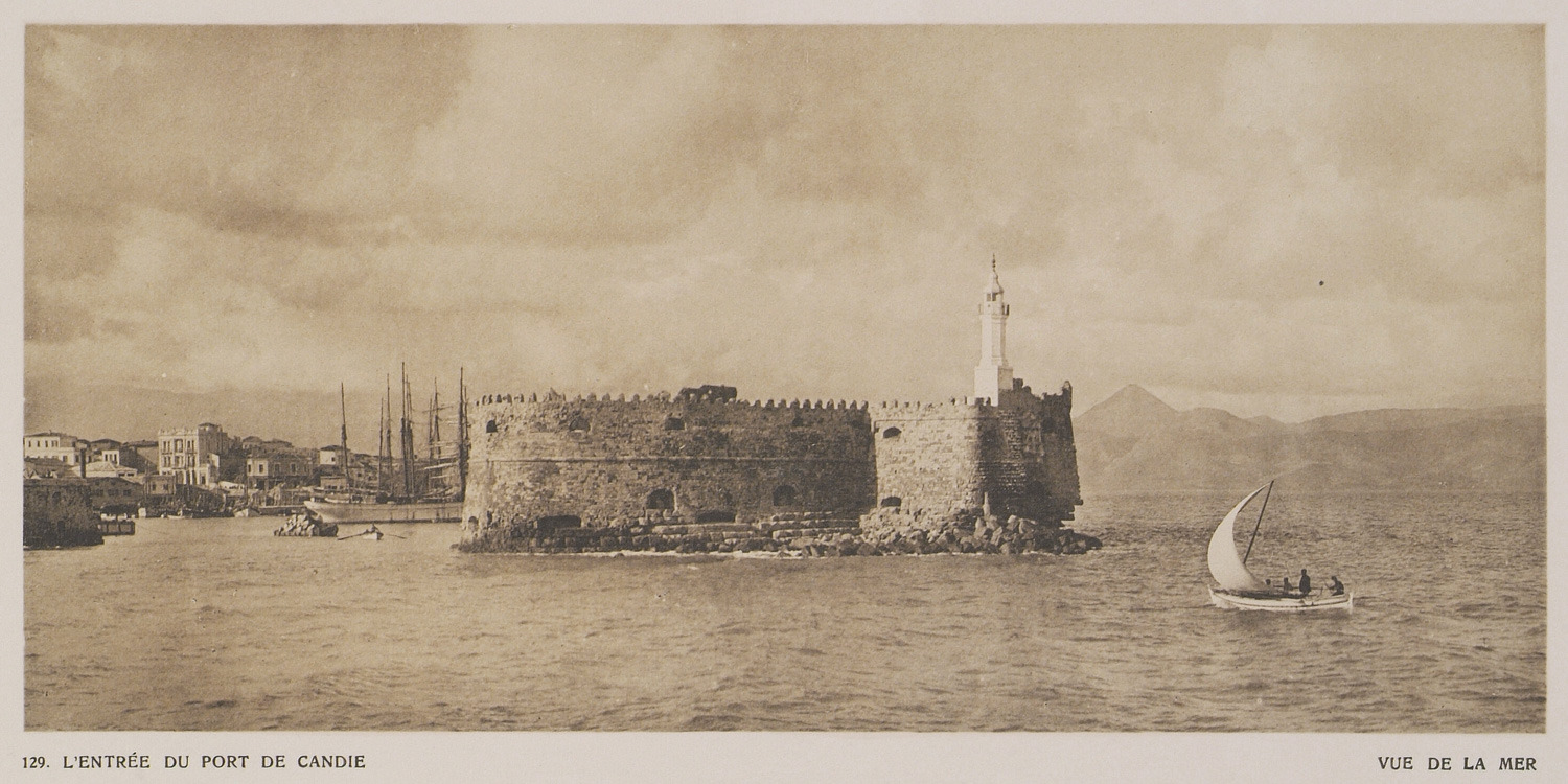 Frédéric Daniel Boissonnas Baud-Bovy. Des Cyclades en Crète au gré du vent, Geneva, Boissonnas & Co, 1919.